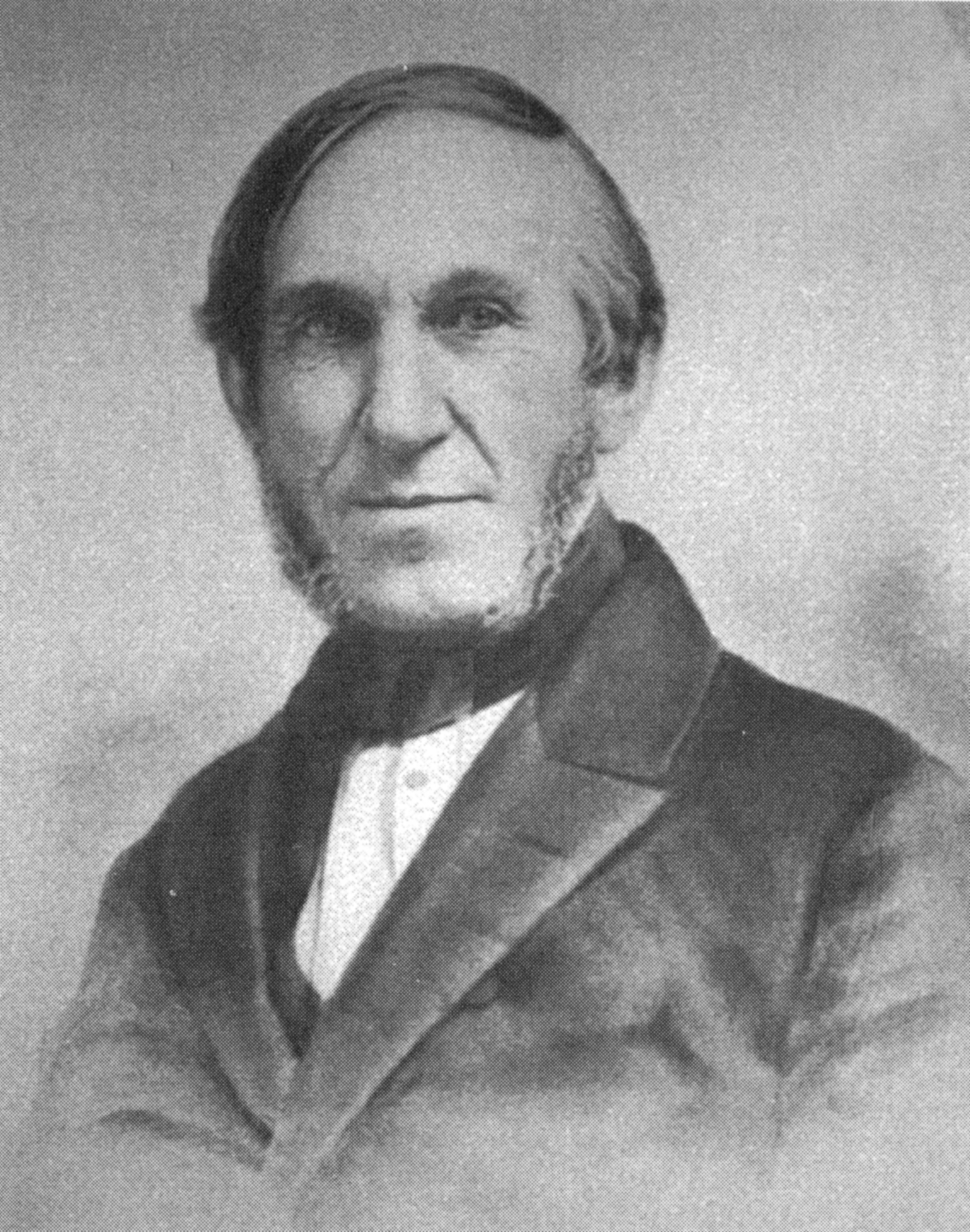 Portrait of an American concholologist Augustus Addison Gould (1805-1886).